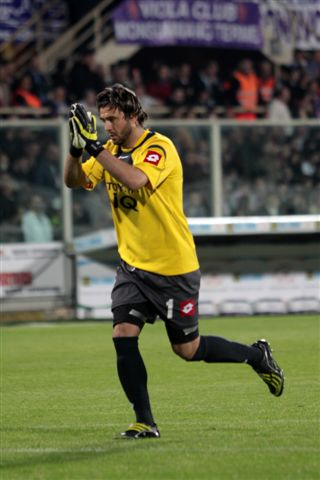 ACF Fiorentina player Frey.